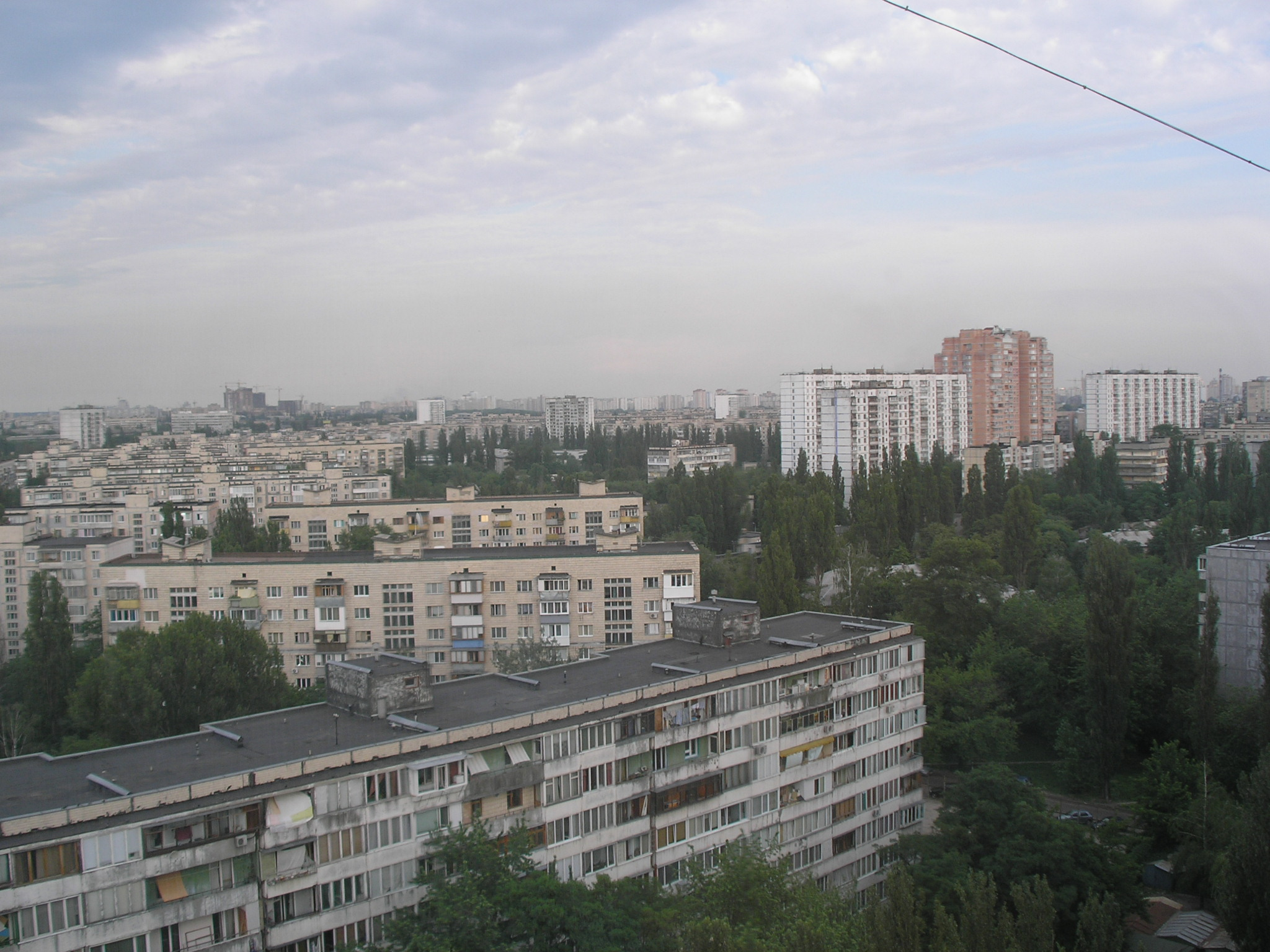 View of apartment buildings in the Rusanivka neighborhood of Kiev.